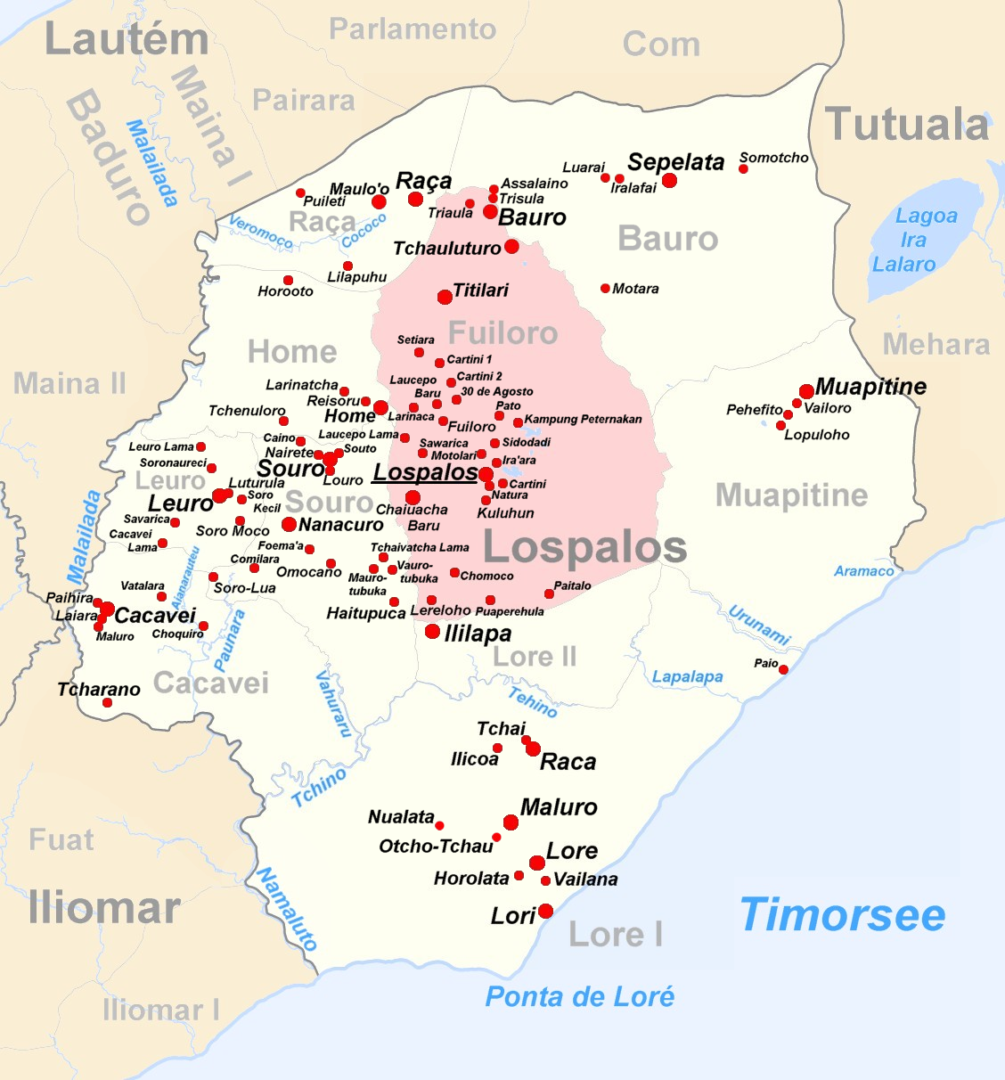 Map of subdistrict of Lospalos, district Lautém, Timor-Leste. Urban Suco in pink